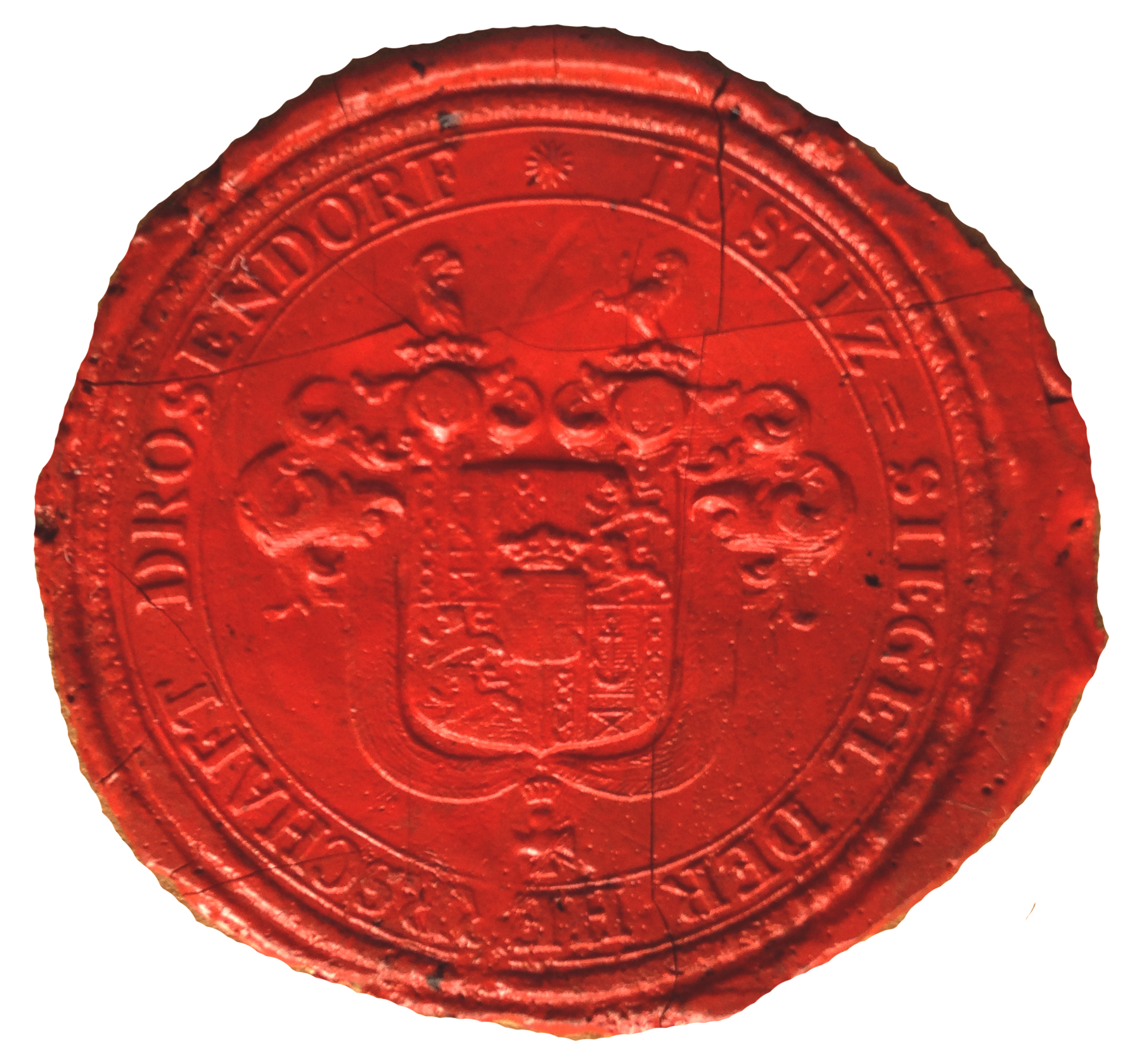 Seal of the city authority higher court ~ 1599